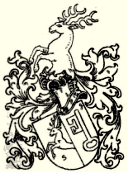 The code of Arms of the Prym family of Aachen as carried by Christian Prym 1659 of the Stolberg branch of the family.